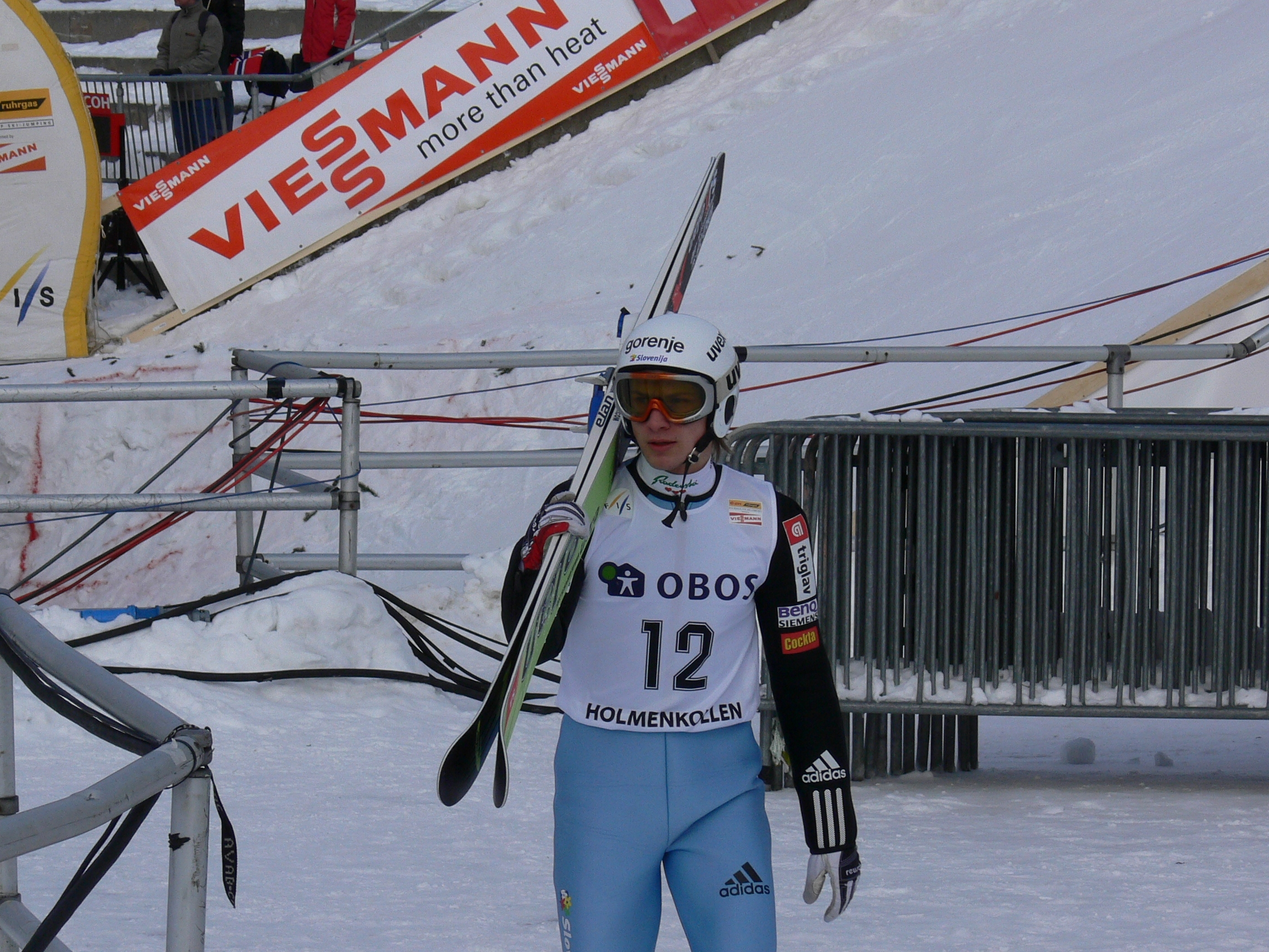 Taken during the 2006 World Cup Ski Jumping event in Holmenkollen